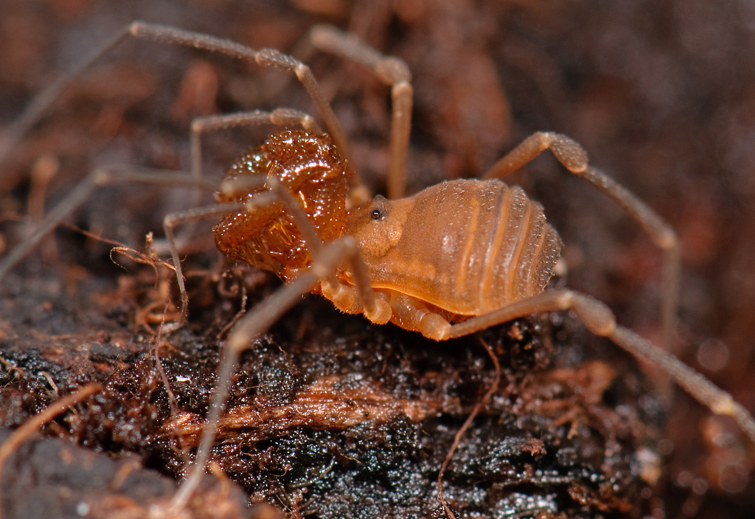 collected by C. Richart & S. Derkarabetian, 3 April, 2008, Clatsop Co., OR pictures taken in lab